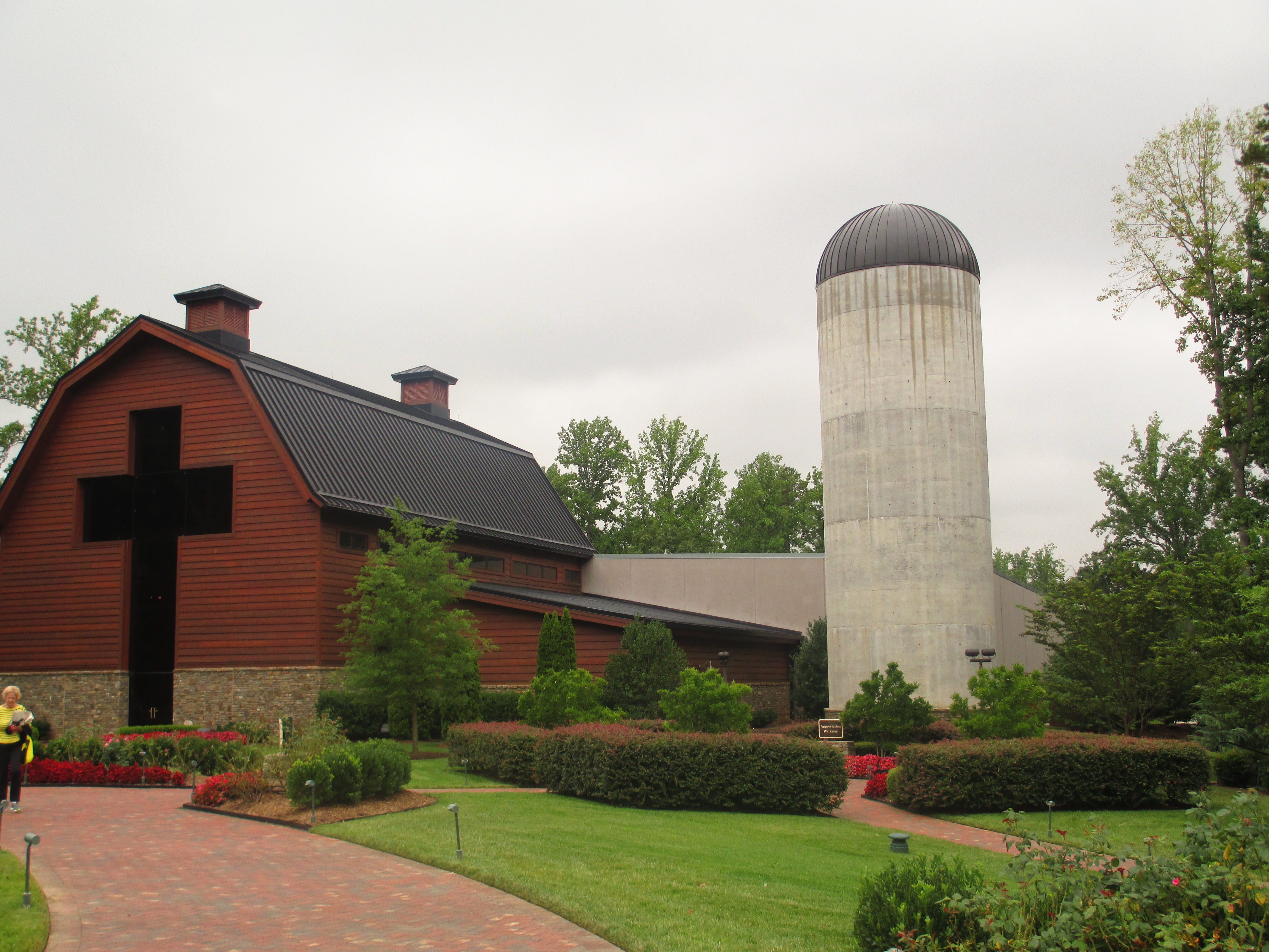 I took photo of Graham Library and Silo in Charlotte, NC, with Canon camera.